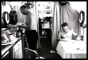 U.S. Navy aquanauts aboard the SEALAB I underwater habitat, 192 feet beneath the surface of the ocean off the coast of Bermuda. U.S. Navy photo.